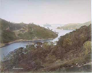 View of the coastline near Nagasaki showing Takaboko Island (also known as Pappenberg Island) in the distance, Japan, possibly by Ueno Hikoma or Stillfried & Andersen, between 1862 and 1885 (Hand-coloured albumen print)